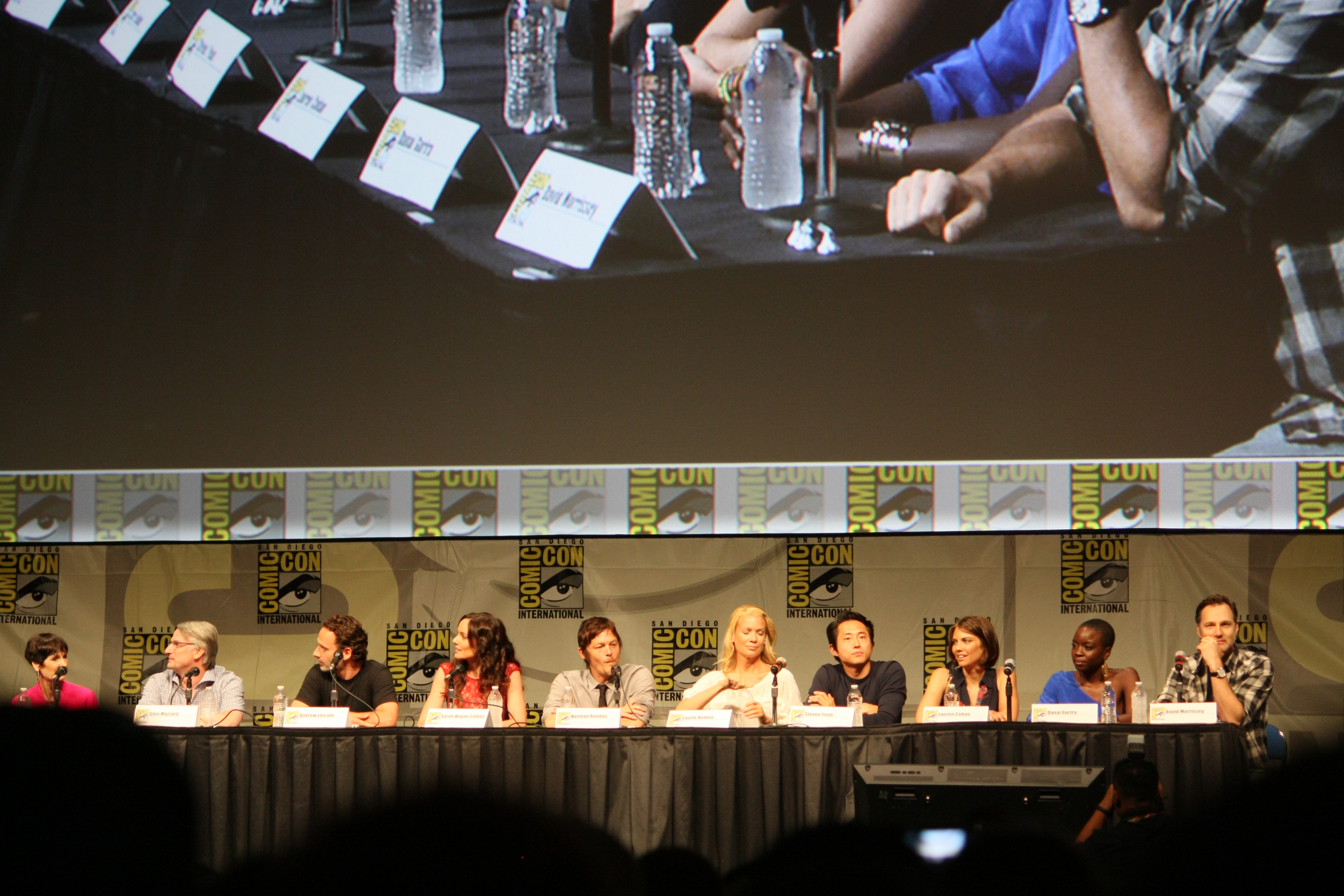 Andrew Lincoln (Rick), Sarah Wayne Callies, Norman Reedus (Daryl), Laurie Holden (Andrea), Steven Yeun (Glenn), Lauren Cohan (Maggie), Danai Gurira (Michonne) & David Morrissey (The Governor)